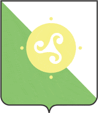 Ust-Ord Buriatia (Ust-Ord Buryatia), coat of arms